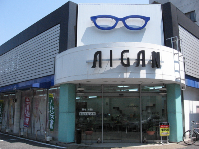 Glasses store "Aigan" Shakujii shop in Nerima, Tokyo.